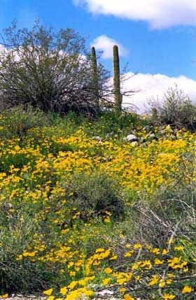 Vegetation in Sonoran Desert National Monument, Arizona